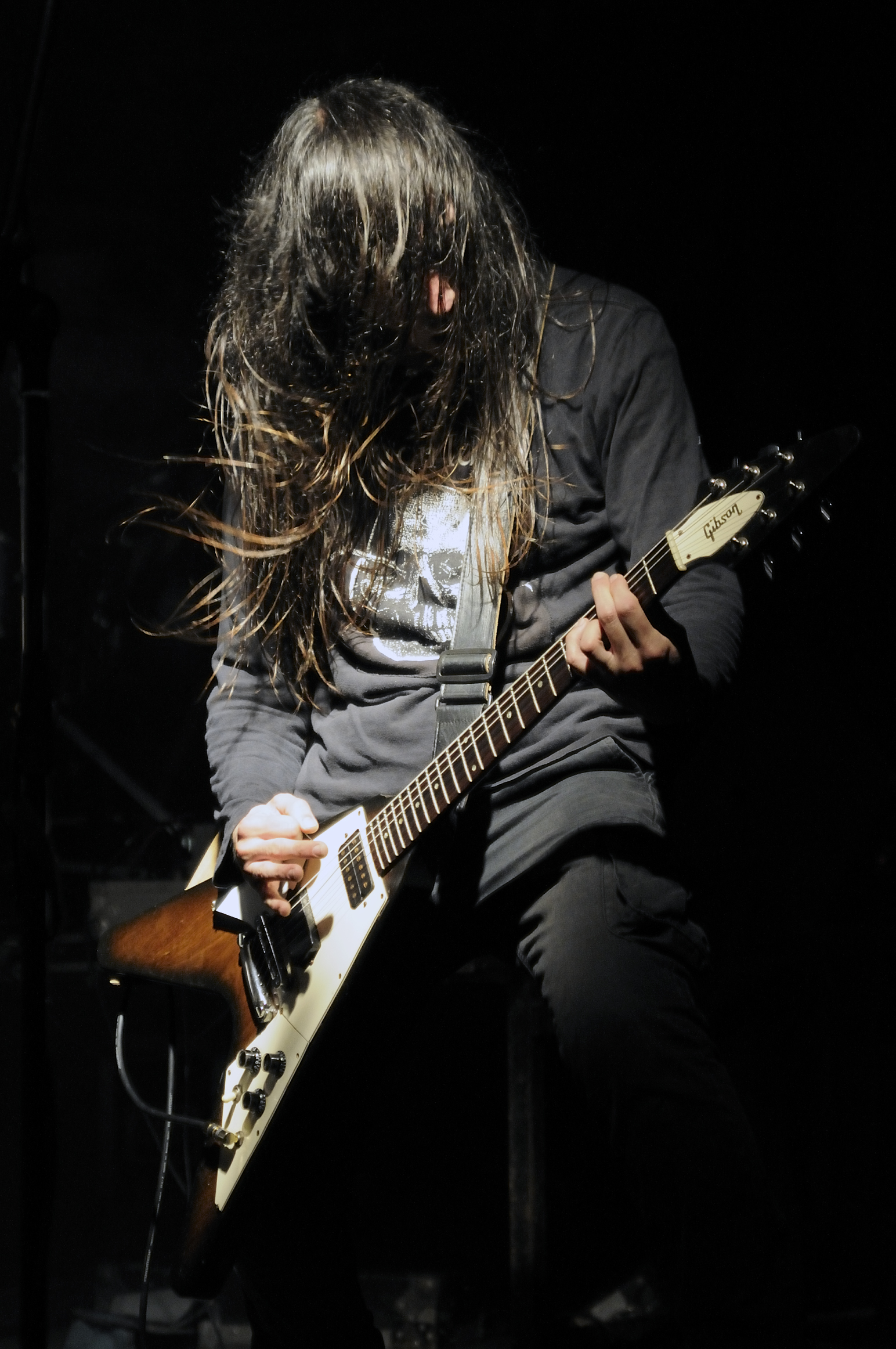 Mikel Kazalis playing the guitar with the Anestesia band in the Donibane festivals (Iruñea) in 2015.